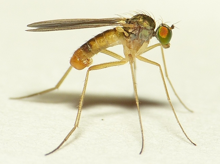 Xanthochlorus ornatus, location: The Netherlands - Rhenen - Blauwe Kamer - Gelderland